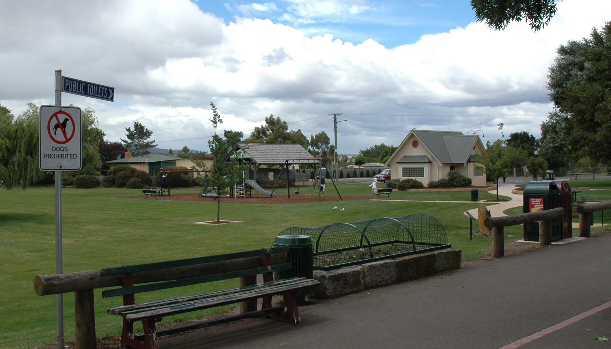 Campbell Town, Tasmania